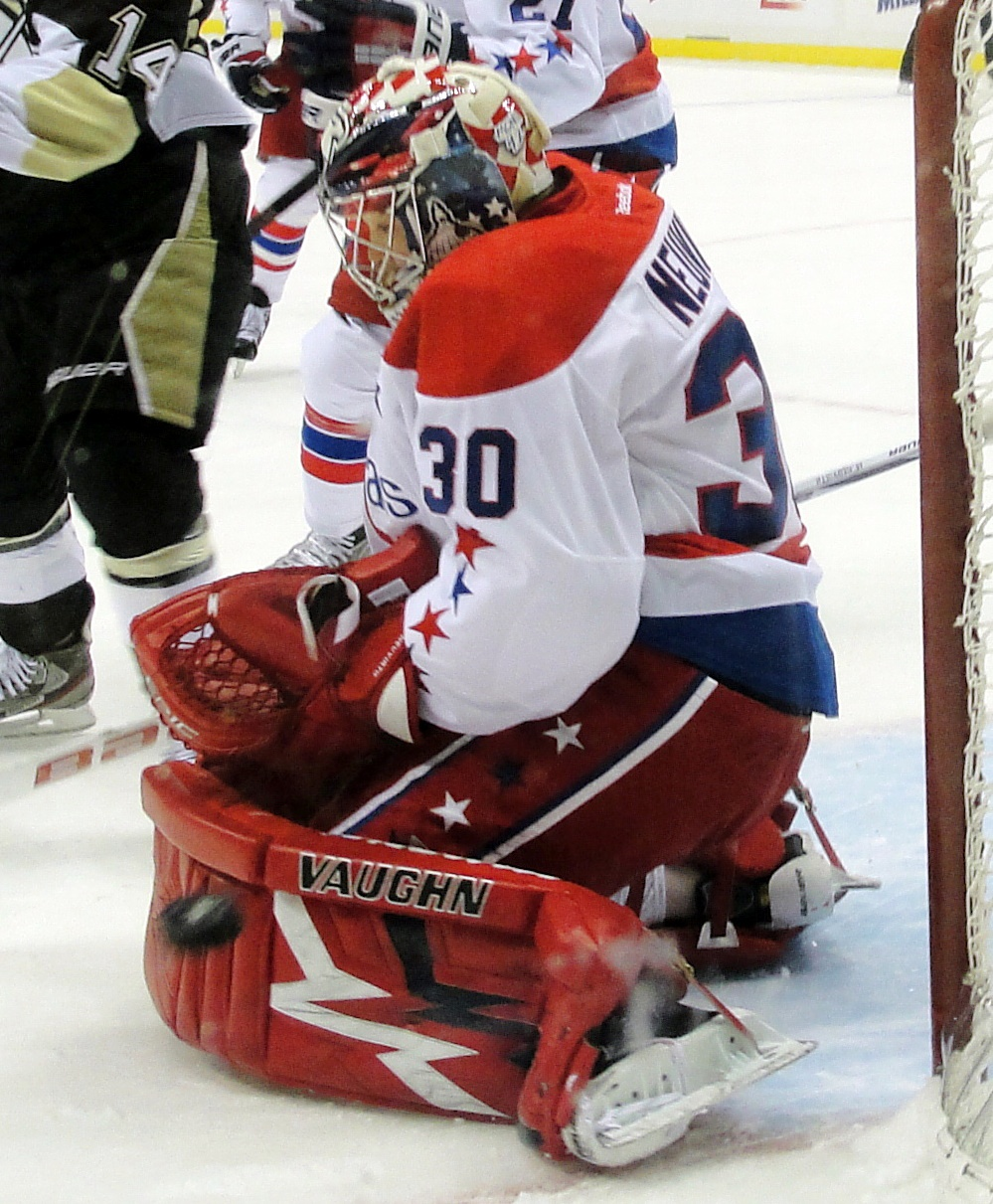 Michal Neuvirth in net for the Washington Capitals against the Pittsburgh Penguins, January 22, 2012 at Consol Energy Center in Pittsburgh, PA.